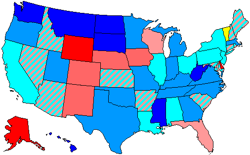 Summary of party control of U.S. house seats in the 103rd United States Congress following election. Stripes indicate a tie between two or more parties. Legend: 80.1-100% Democratic seat majority 60.1-80% Democratic seat majority 60% or less Democratic seat plurality 60% or less Republican seat plurality 60.1-80% Republican seat majority 80.1-100% Republican seat majority 80.1-100% Independent seat majority